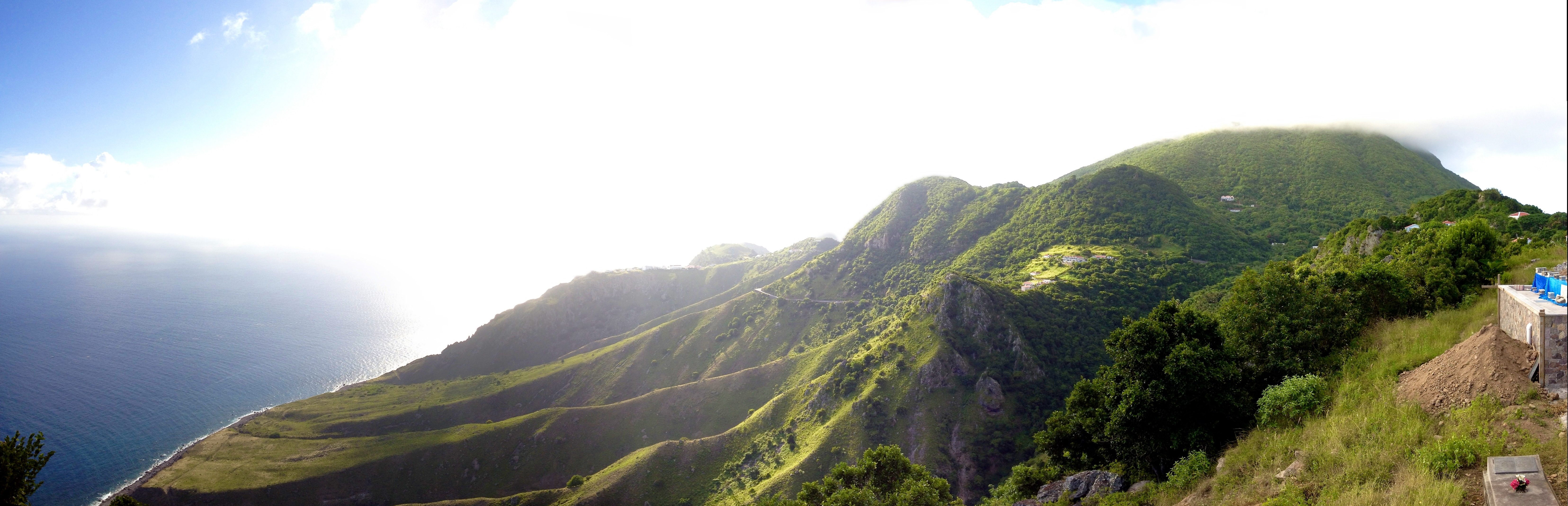 Saba in the Lesser Antilles (Caribbean Netherlands). View of the south side of island toward St. John from Booby Hill (Windward)